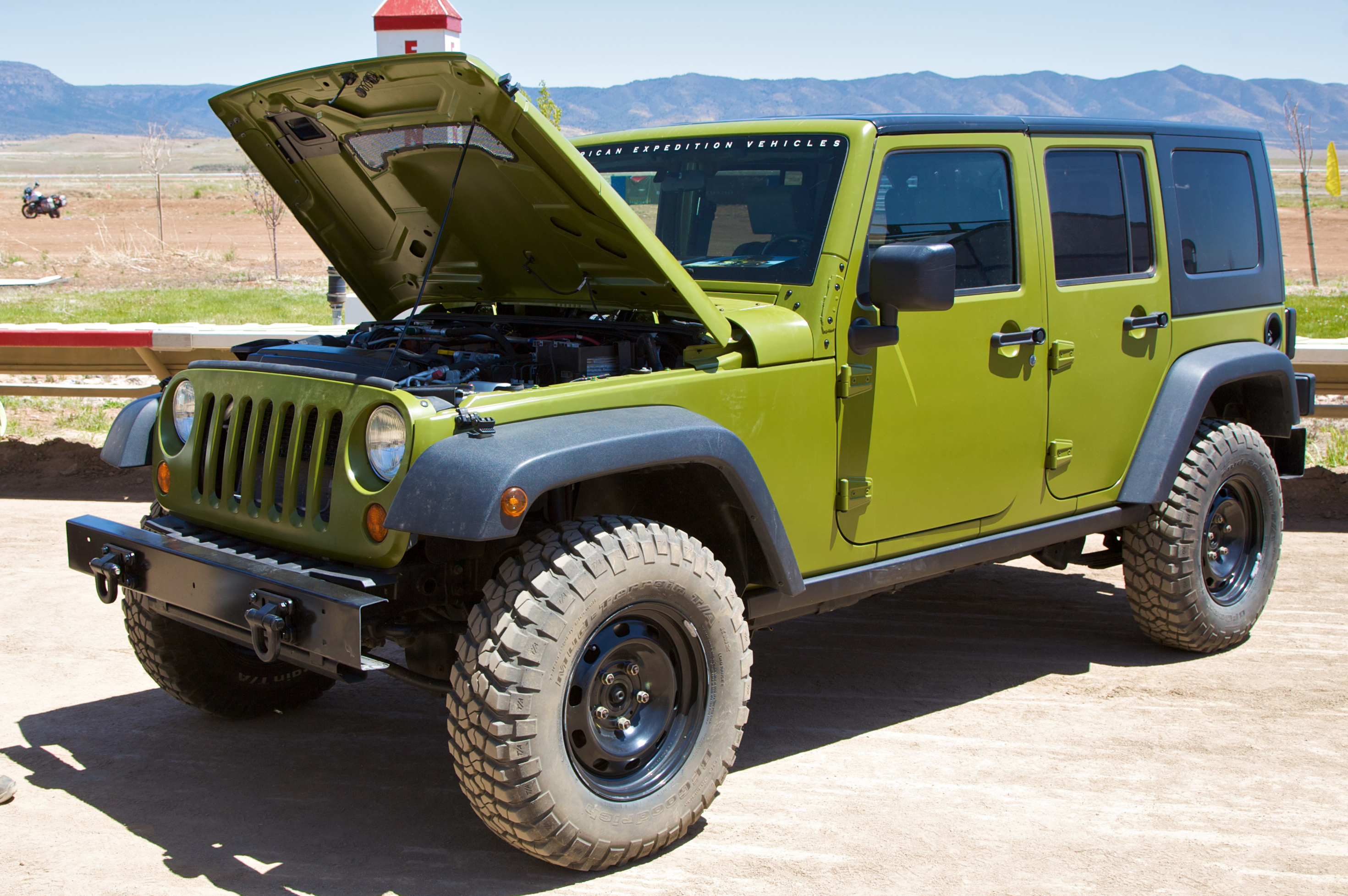 aev j8 2.8L turbodiesel